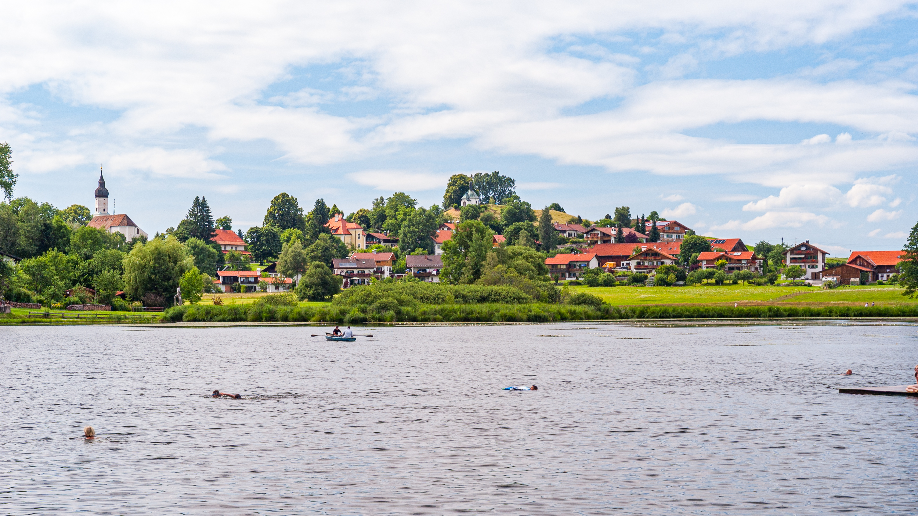 View over lake Soier to Bad Bayersoien